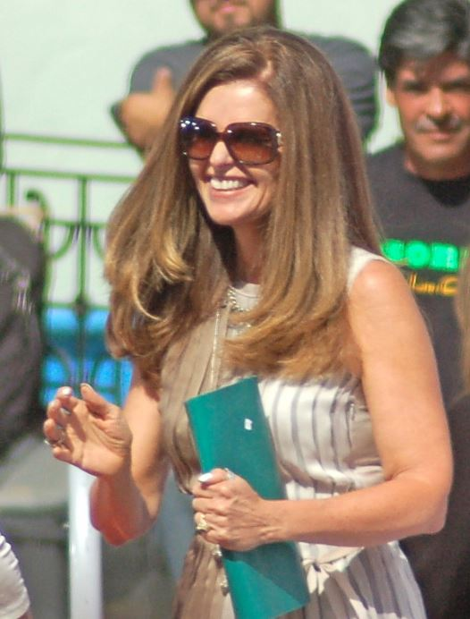 Maria Shriver at a ceremony for Jane Fonda to have her hand and footprints inducted in front of Chinese Theatre.